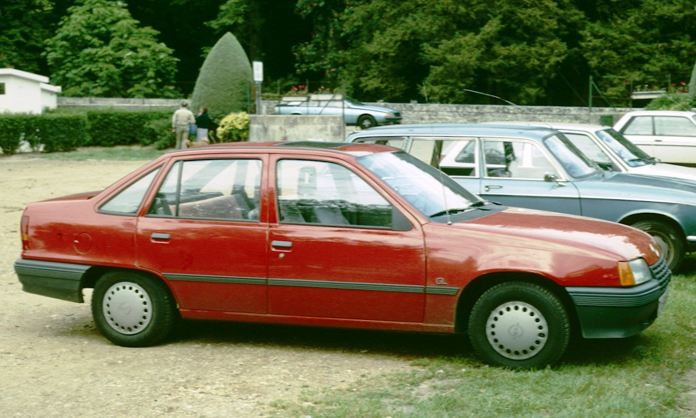 Opel Kadett E Notchback at Hoge Veluwe National Park